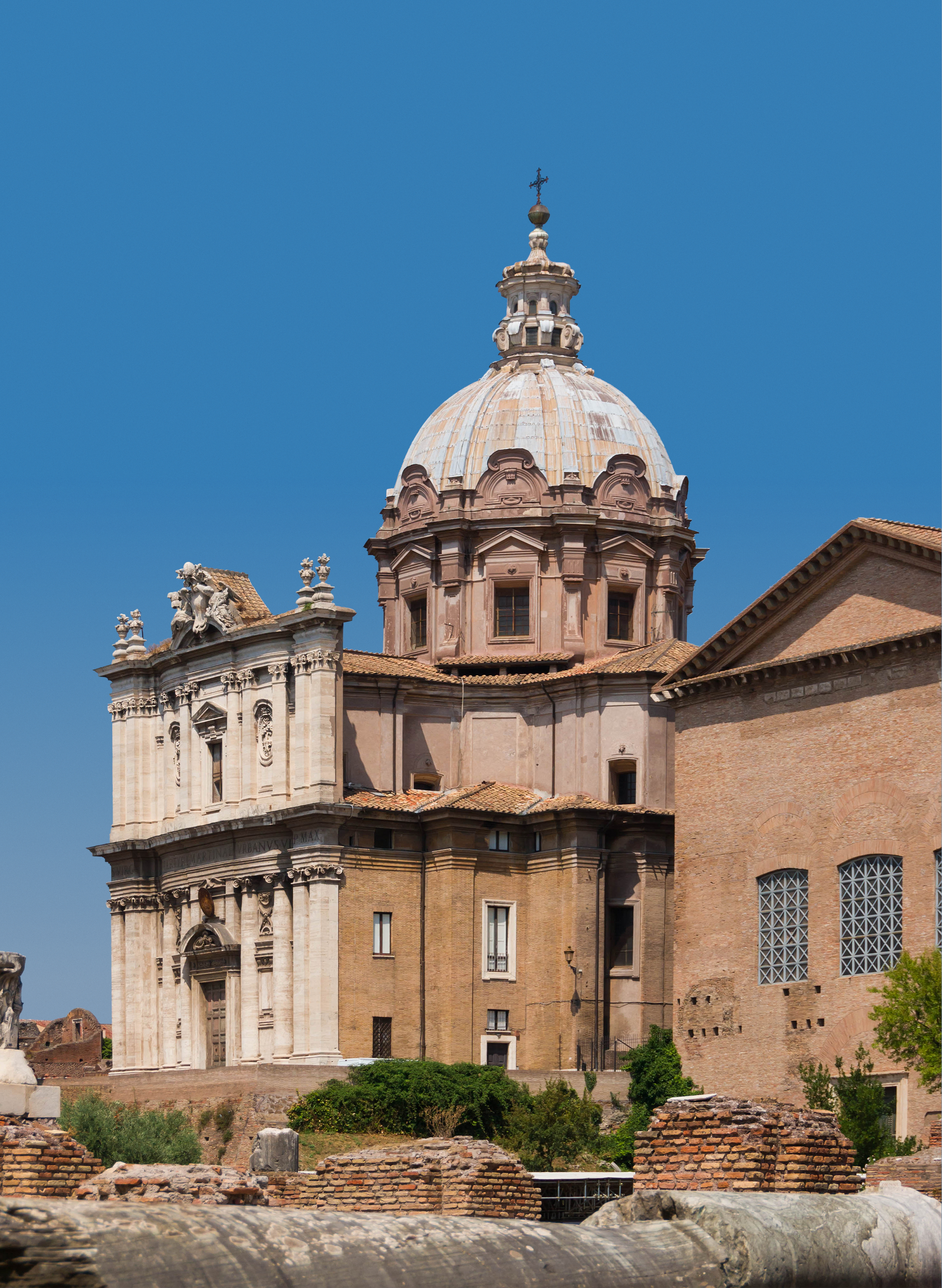 Church of saints Lucas and Martina, from the Forum Romanum, Rome, Italy.